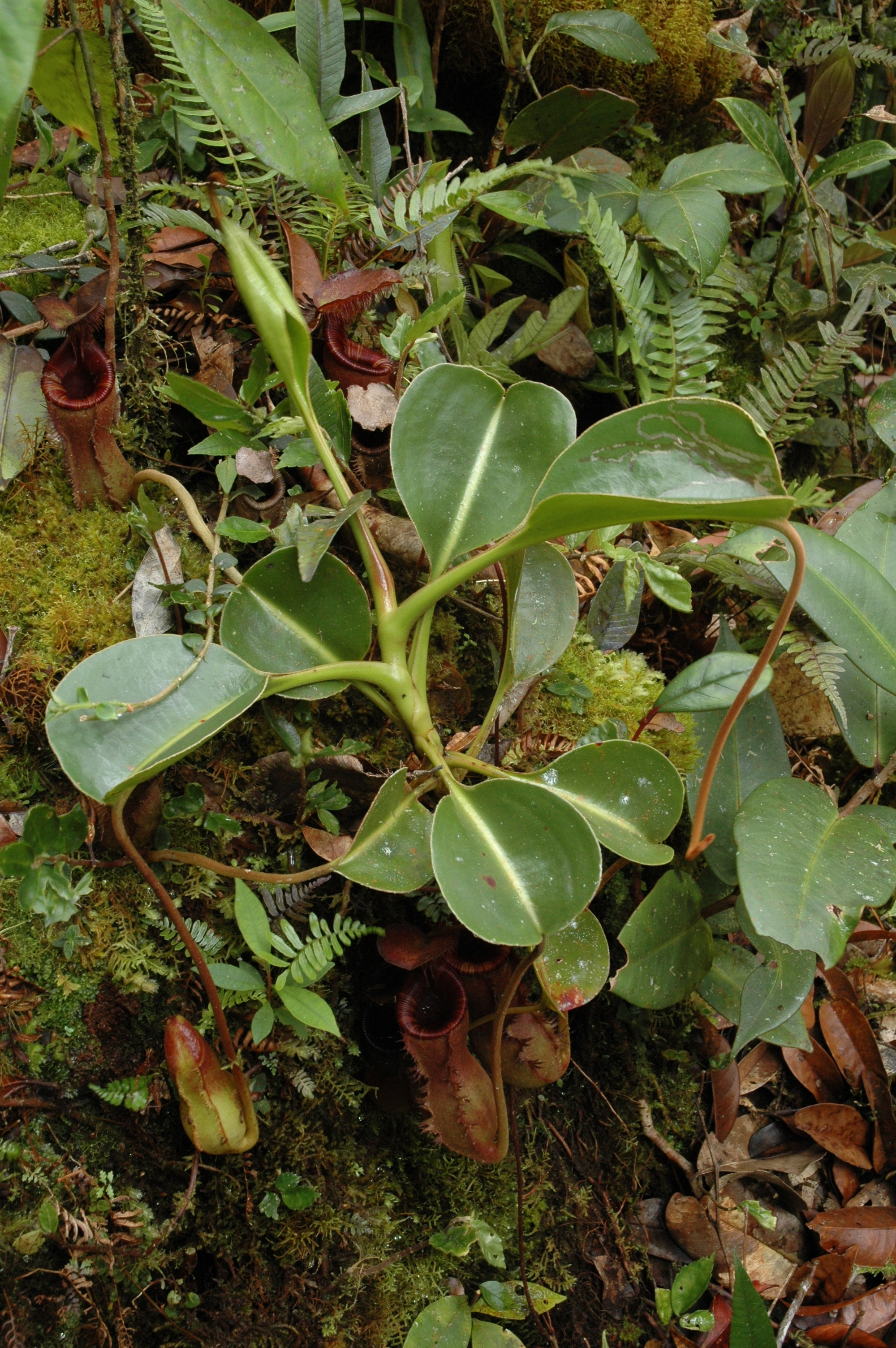 Nepenthes lowii plant with lower pitcher Gunung Murud by Jeremiah Harris